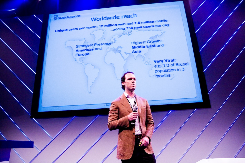 The Next Web Conference 2008